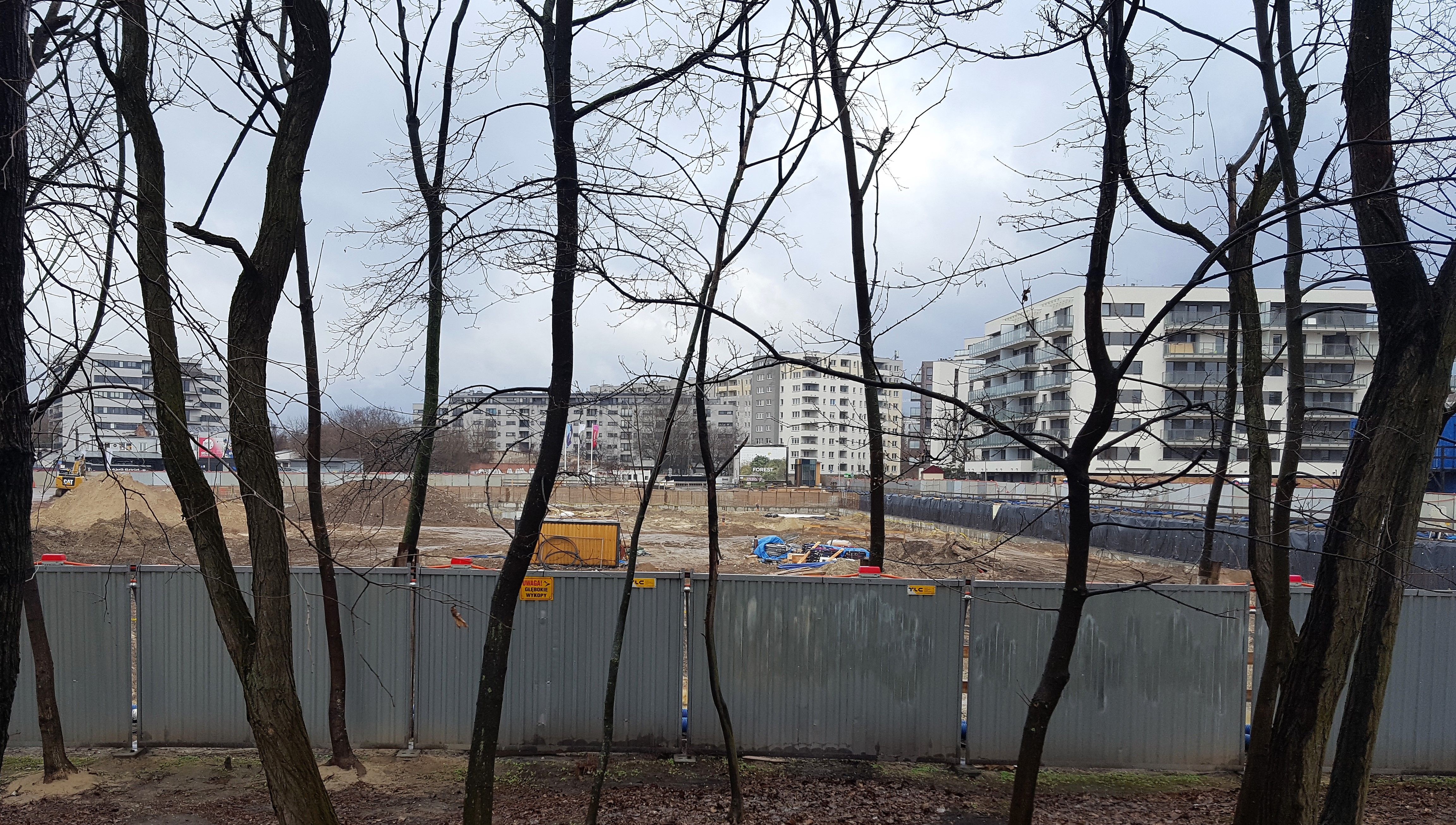 Forest Office Complex, Warsaw, under construction, Burakowska